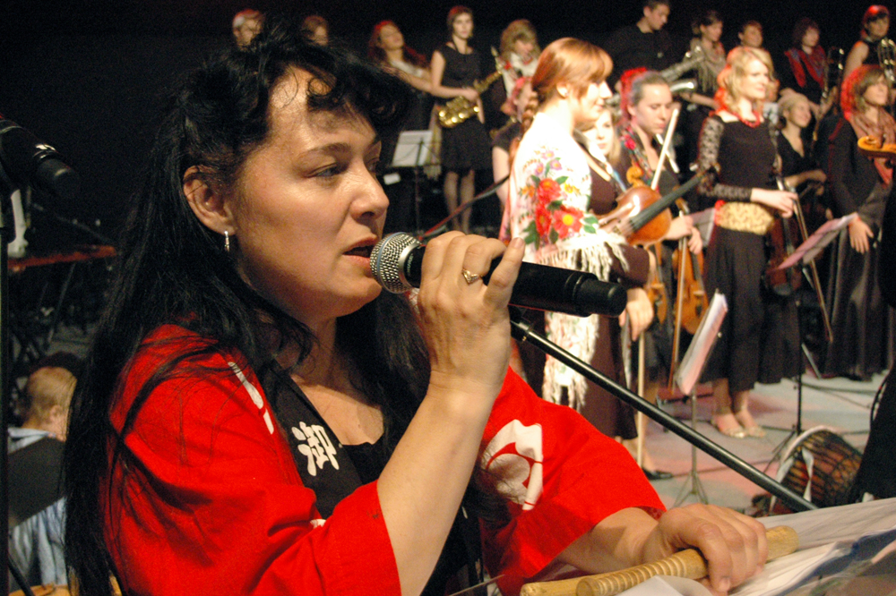 Maria Pomianowska - a folk music expert announcing a concert during 2009 Cross Culture Festival in Warszawa, September 2009.